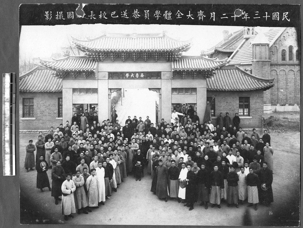 Opening of Alumni gate, Cheeloo University, Jinan, Shandong, China, 1924. The picture was taken on the occasion of a farewell ceremony for Harold Balme, president of Cheeloo University 1921-1927 Source YDS/RG011/414/5873/4857, Yale Divinity Library Special Collections. Uploaded to Wikimedia Commons with permission from Yale Divinity Library.